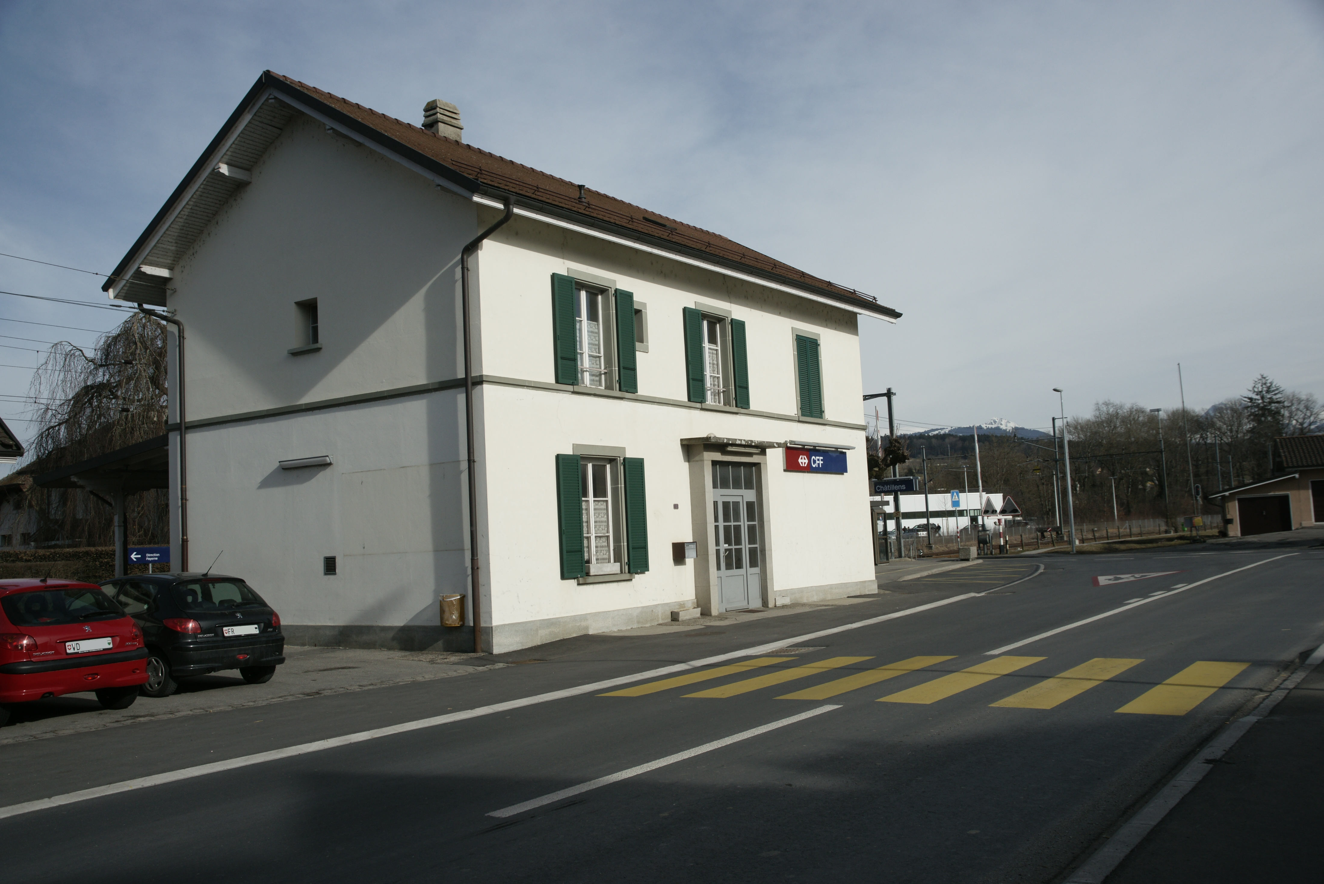 Building of the railway station of Châtillens in the commune of Oron, Vaud, Switzerland